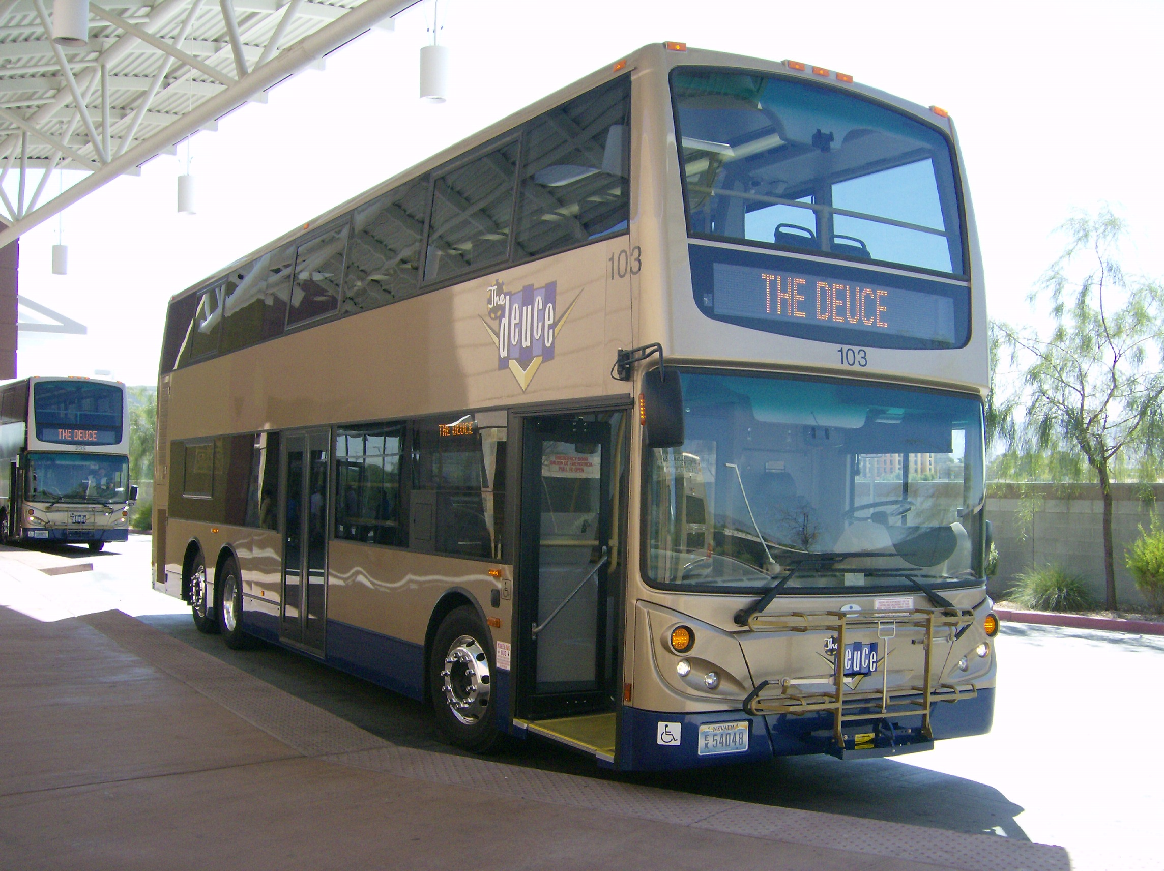 A 2007 Alexander Dennis Enviro 500 sporting "DEUCE" fleetname and livery in Las Vegas.